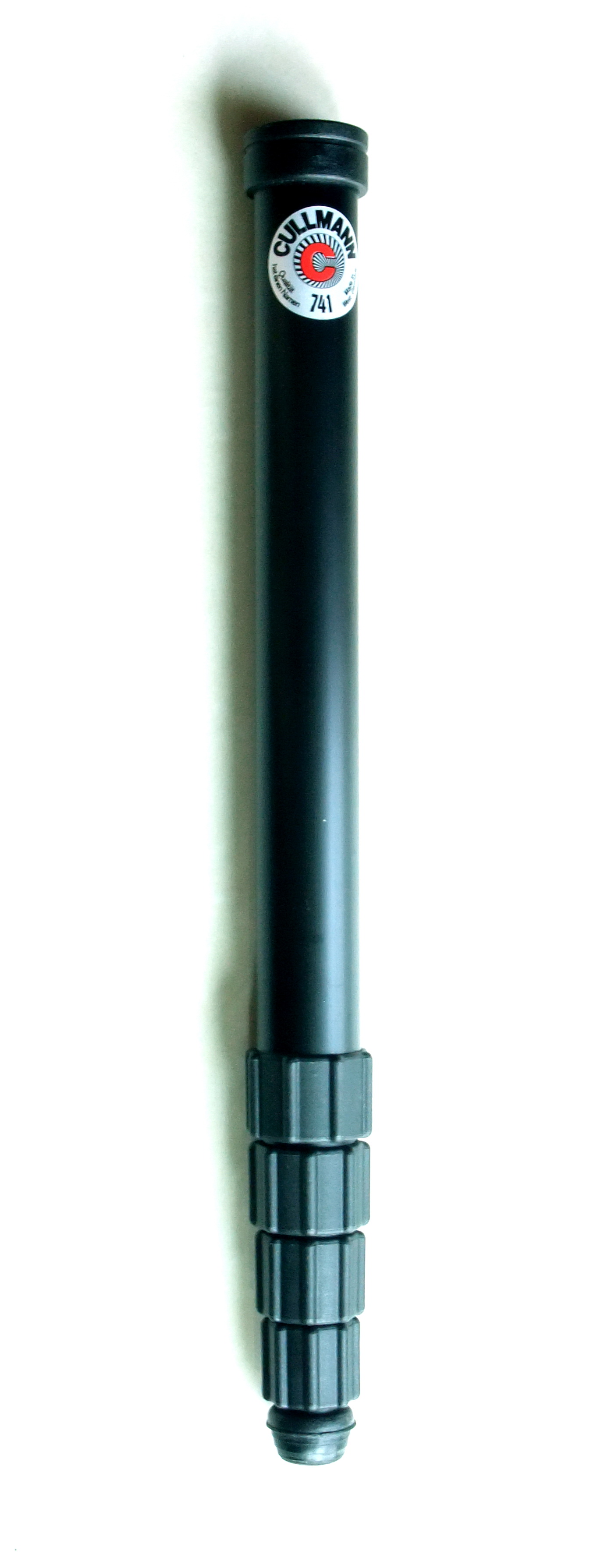 Cullmann 741 monopod 1/4" thread connection, weighs 12 oz and folds down to a length of 15.3"